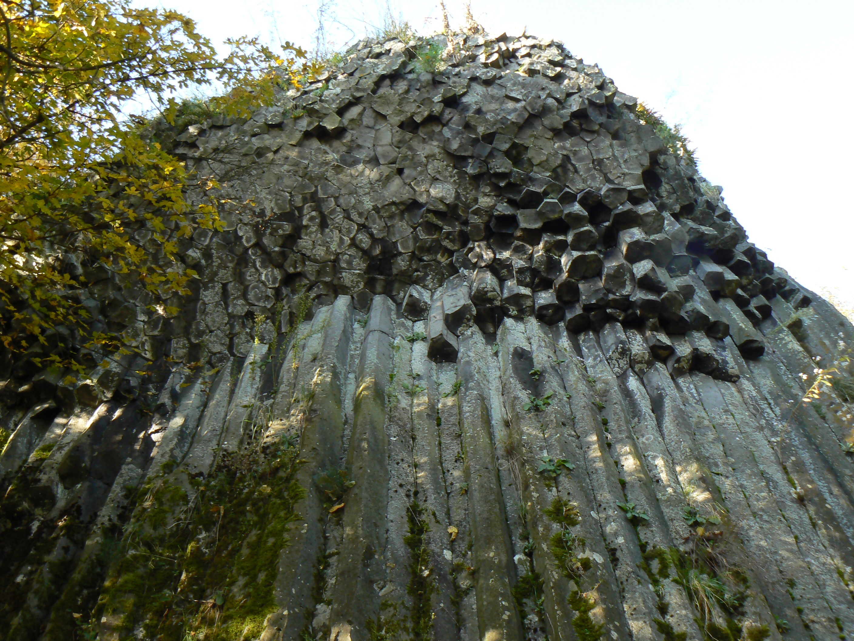 The stone waterfall nearby the Šomoška castle, located on the border between Slovakia and Hungary